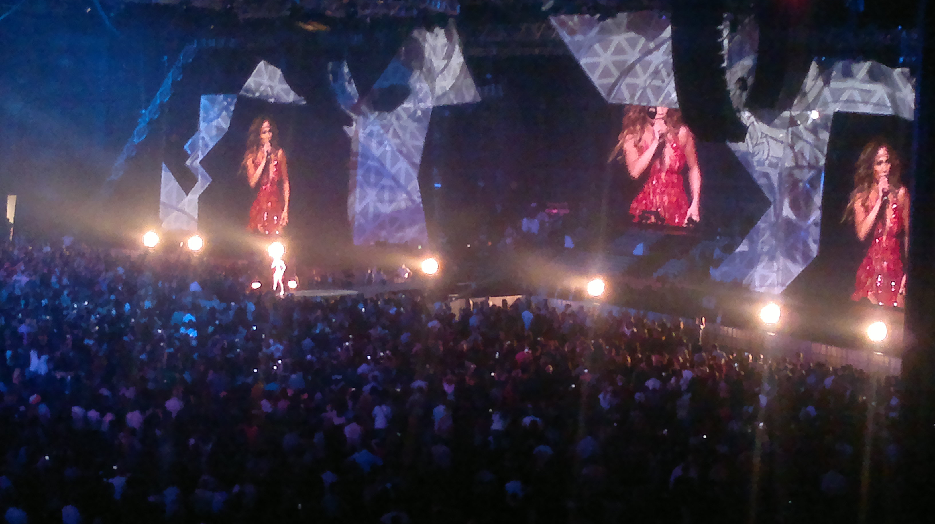 Jennifer Lopez performs in Baku Crystal Hall. Baku, Azerbaijan